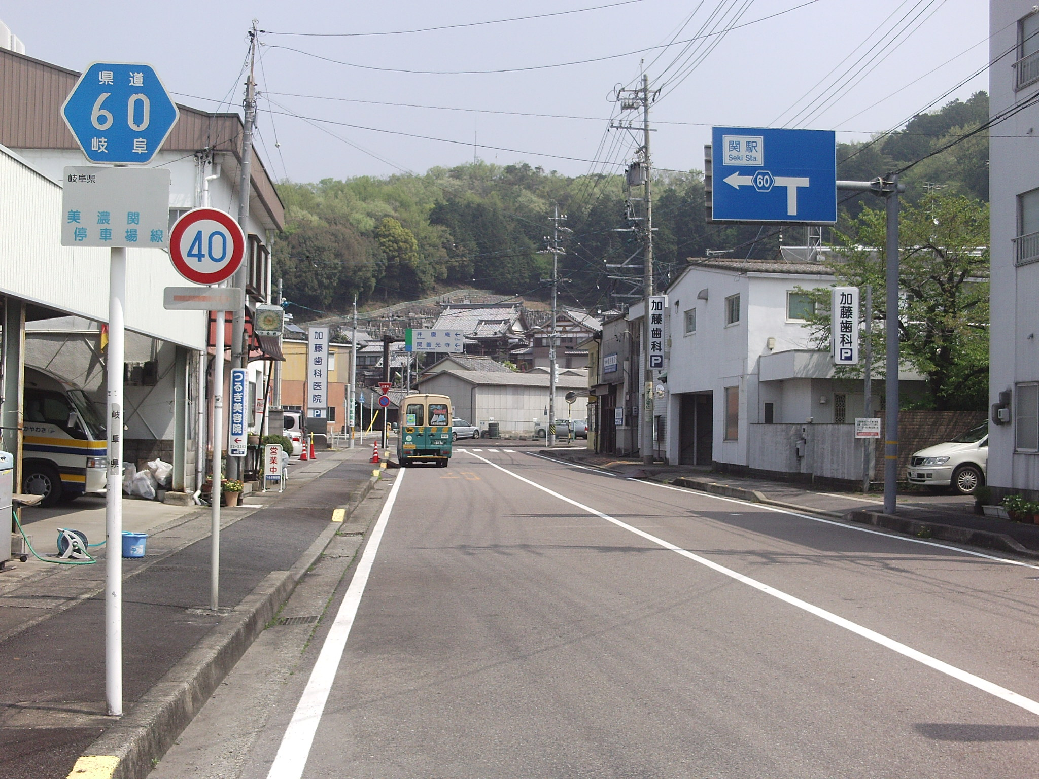 Gifu prefectural road No.60 in Honmachi 5-chome, Seki, Gifu.